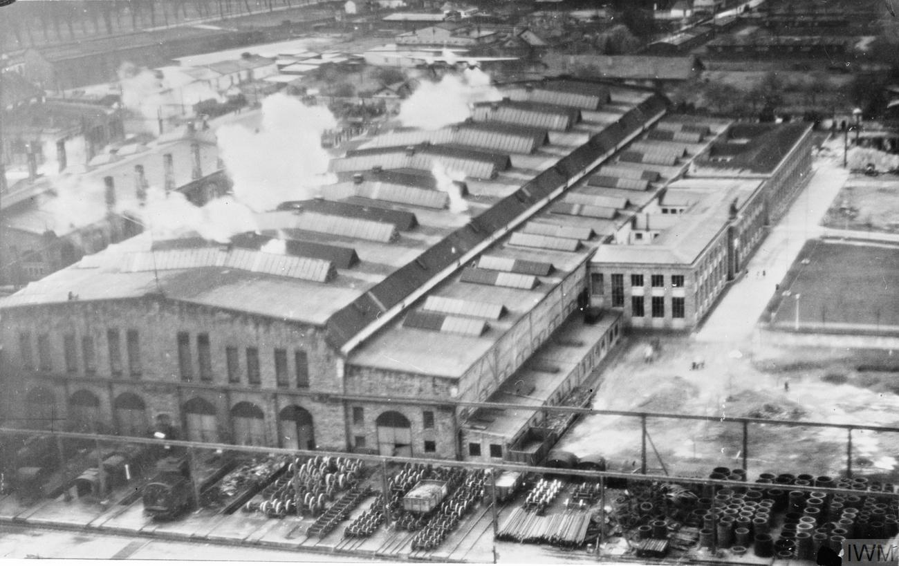 Aerial photograph of an attack by eleven Royal Air Force De Havilland Mosquito B.IV bombers (six from No. 105 Squadron, RAF Marham; five from No. 139 Sqn, RAF Manston) on the railroad network in Trier, Germany, 1 April 1943. This photo shows the attack on the railway yard (Ausbesserungswerk) in Trier-West by 105 Sqn aircraft. As the Mosquitoes attacked from an altitude of 15 m, the 227 kg bombs ricocheted from the steel roof of the locomotive shop and destroyed the adjacent street car depot of the Stadtwerke Trier. Note the Mosquito bomber in the upper center of the photograph.